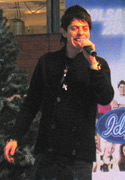 Kevin Borg, winner of Swedish Idol, on tour 2008